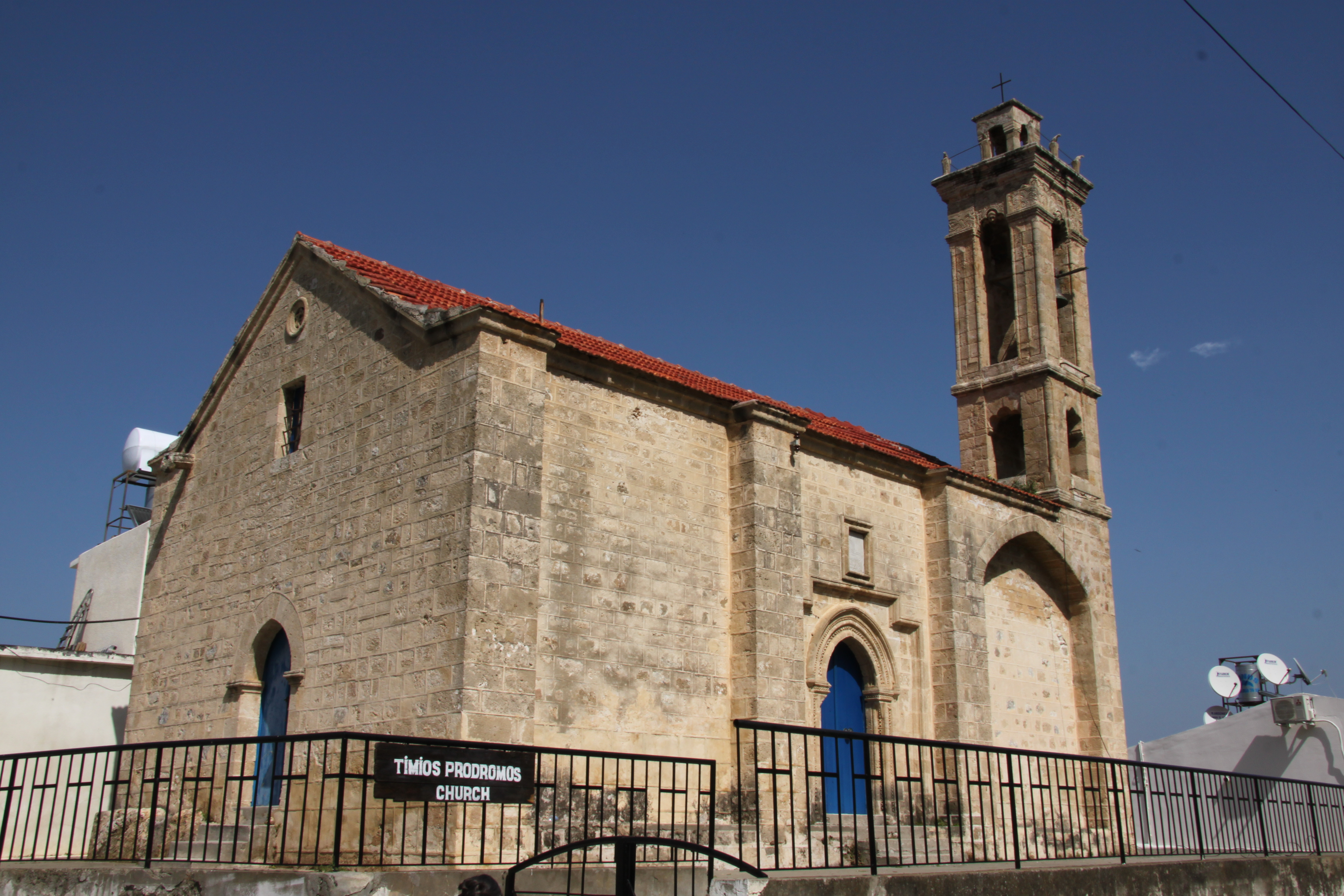 The Timios Prodromos Church in Lapta or Lapithos, Northern Cyprus.